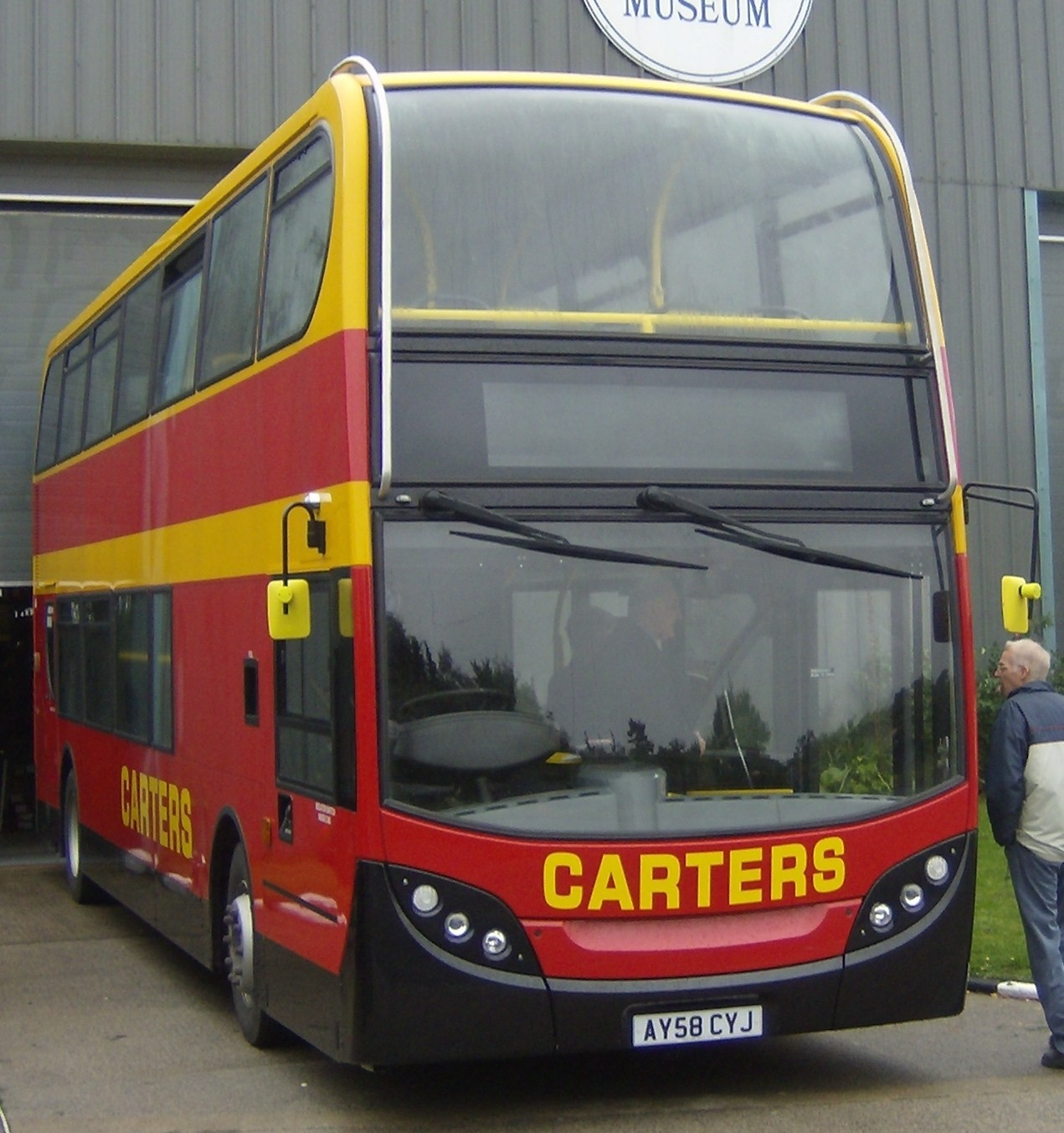 Carters Coach Services' AY58 CYJ, Alexander Dennis Enviro400, when new at the Ipswich Transport Museum. Edited to ground the bus and trim distractions.